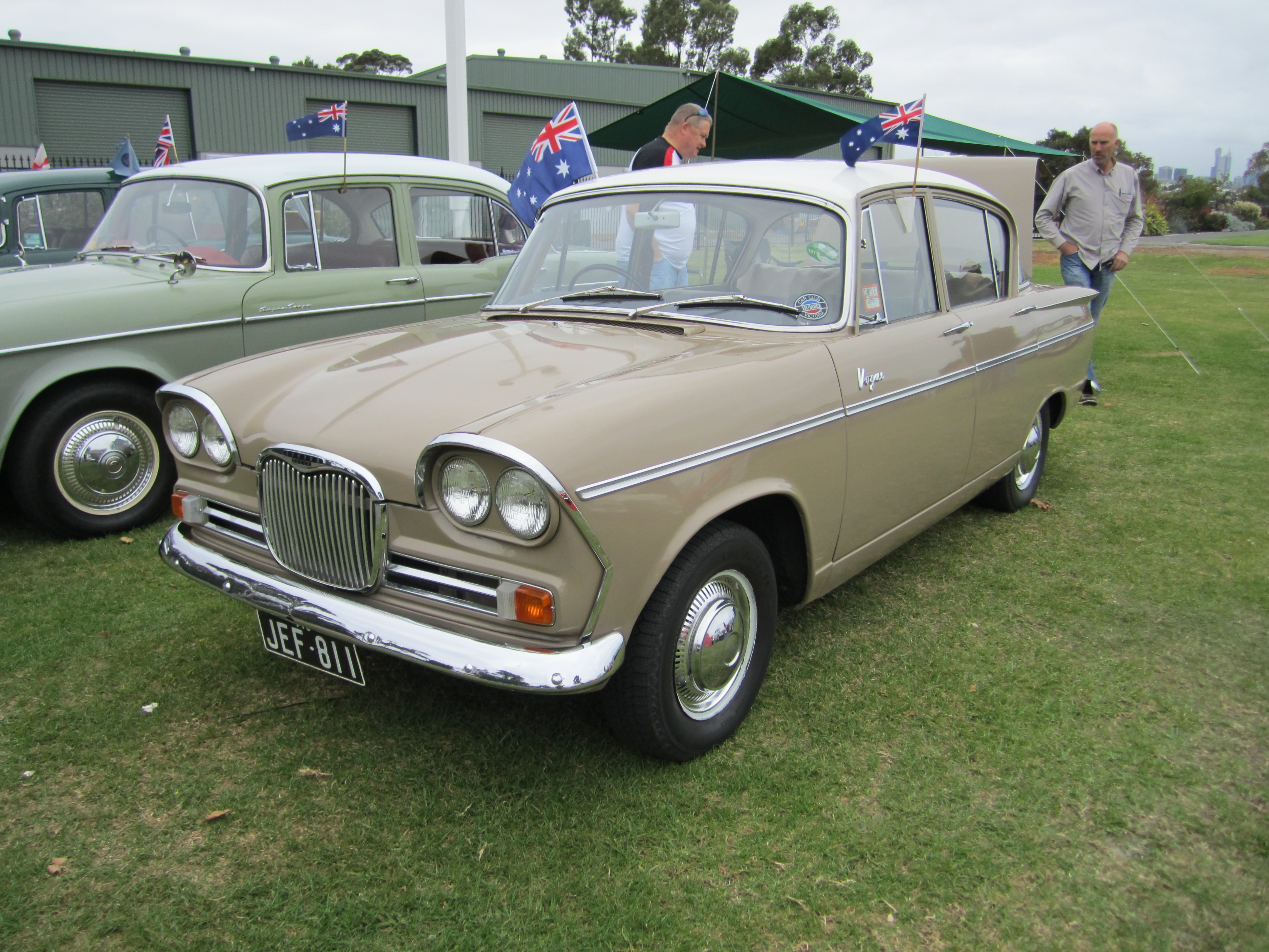 Australian assembled. Similar to the English Singer Vogue and the Hillman Super Minx. Built from 1961-67, Series I from 1961-62. Engine; 1592cc 4 cyl